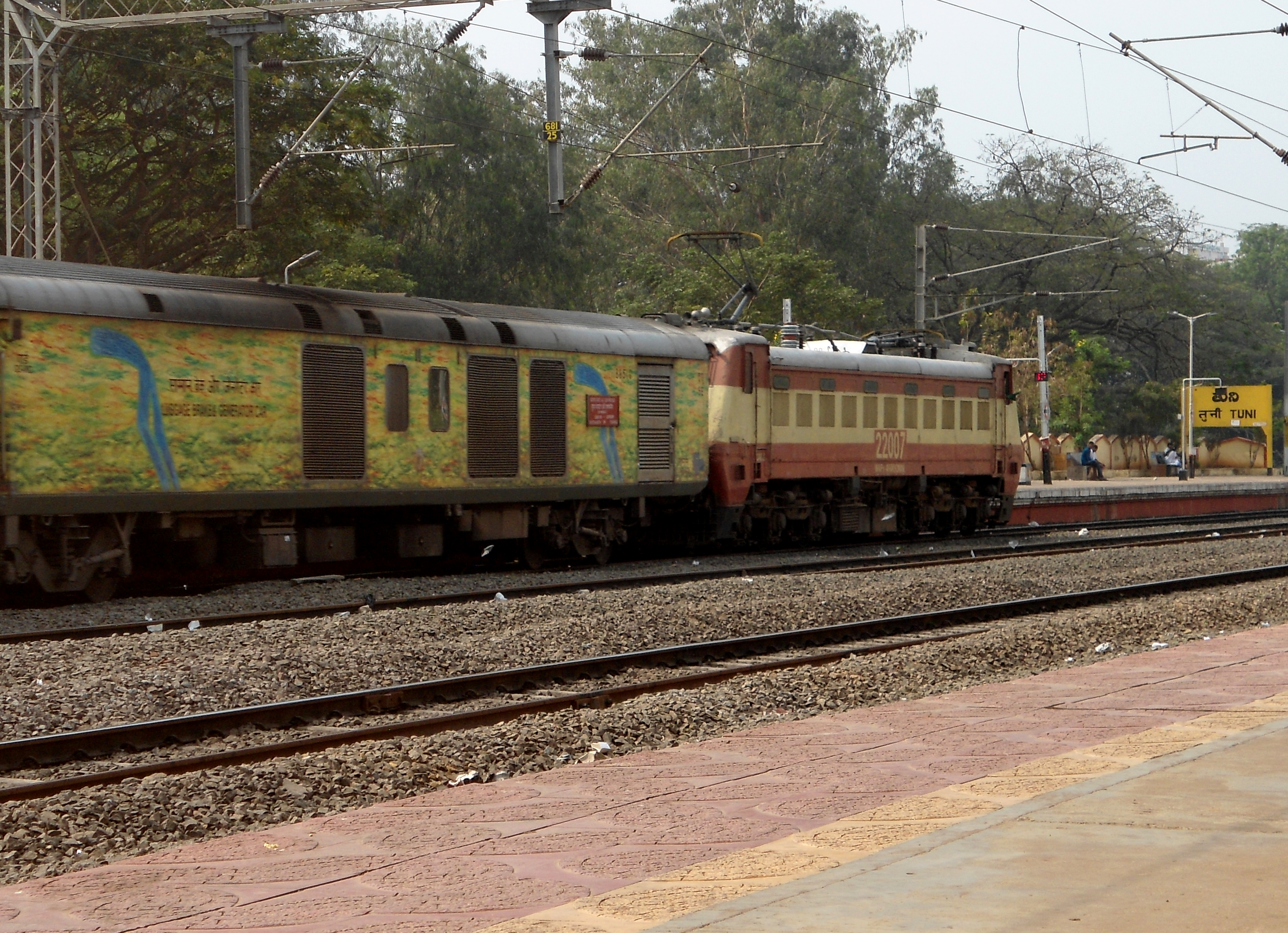 (Santragacchi - Chennai) AC Express at Tuni with a WAP1 locomotive from Arakkonam shed